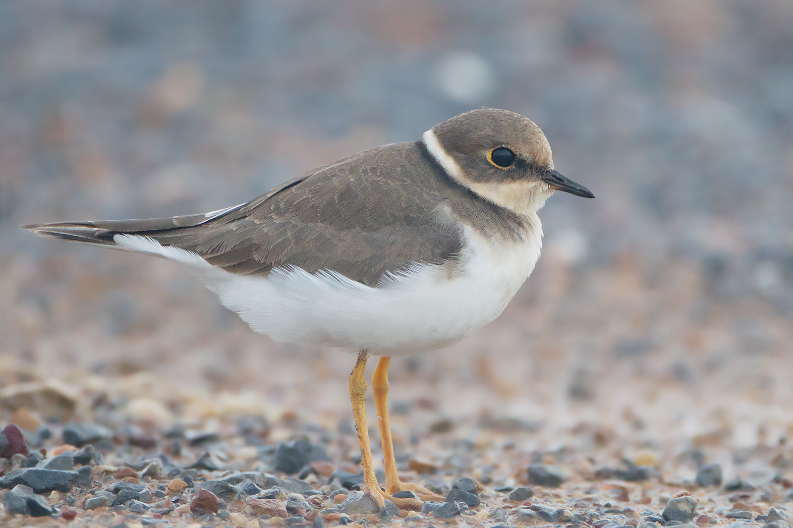 Little Ringed Plover (Charadrius dubius), Pak Thale, Petchaburi, Thailand